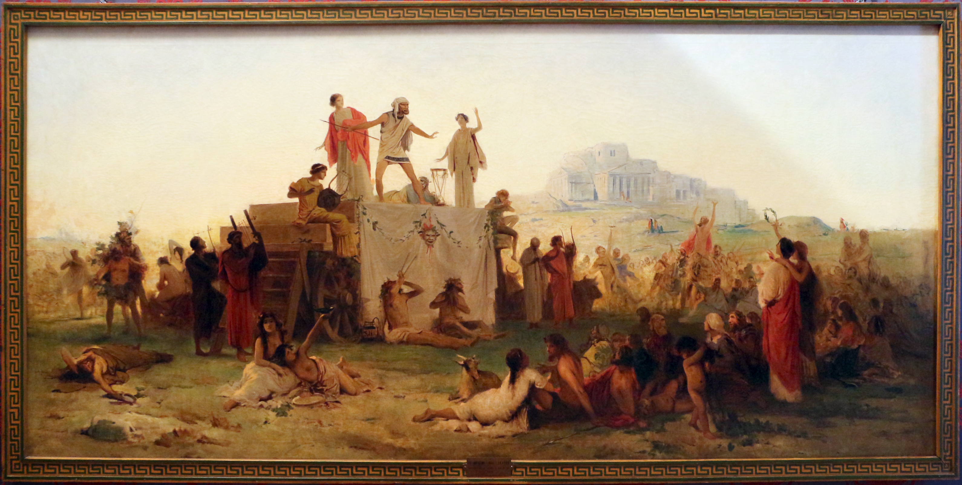 Museo del Teatro alla Scala (Milan)